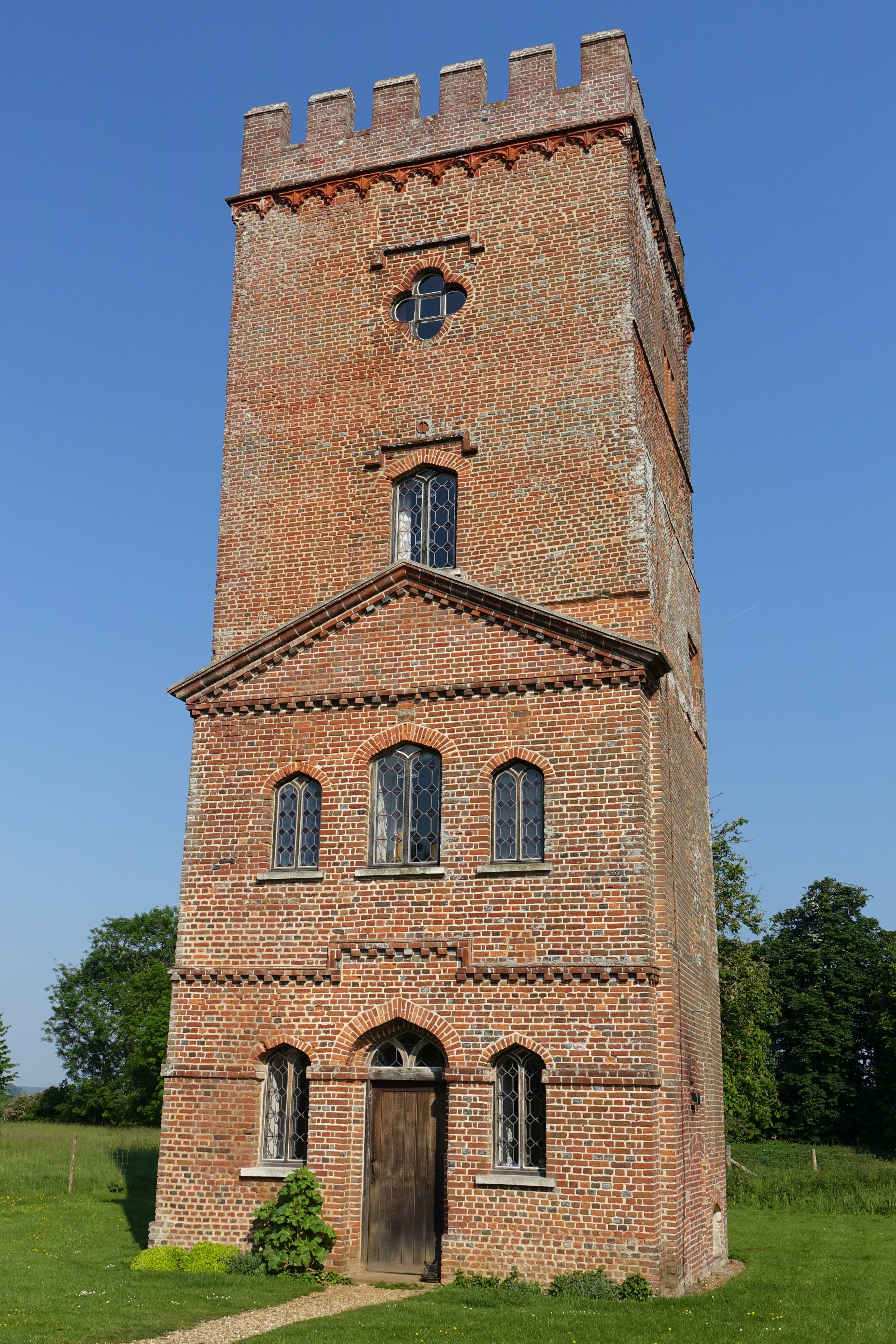 Laughton Place - Lewes, East Sussex, England.